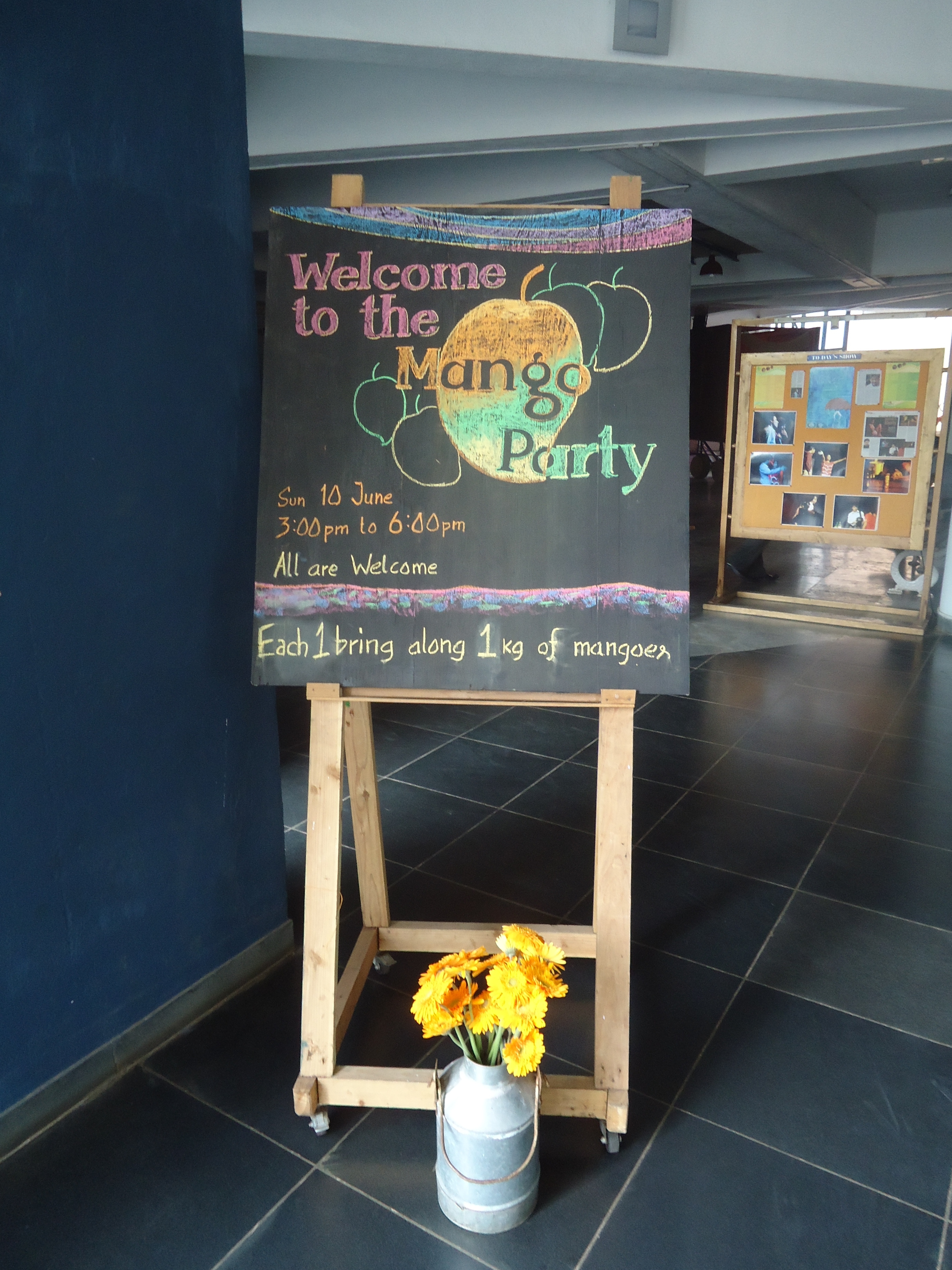 Mango party is an annual event organised by Rangashankara to celebrate the season of Mango.